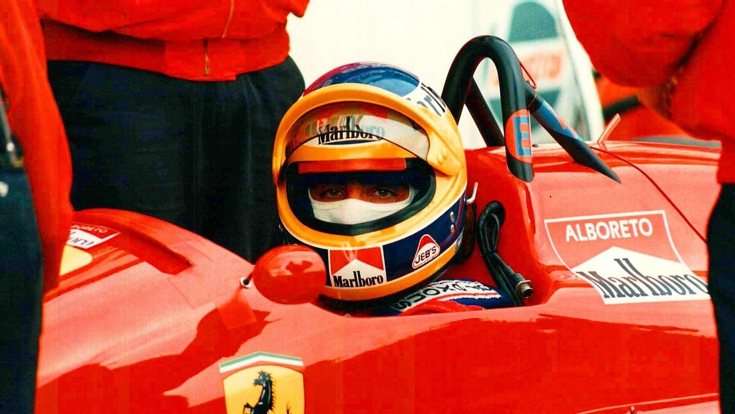 Italian racing driver Michele Alboreto on Ferrari F1-87 (or "F1/87").